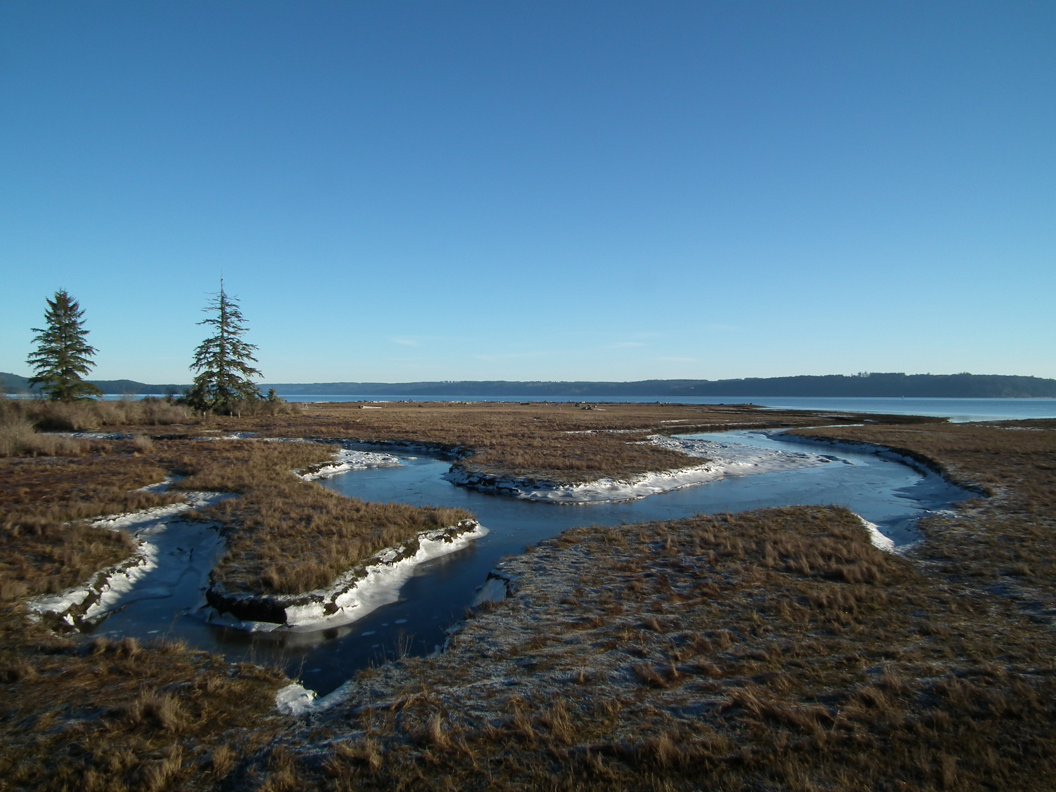 Tidal shoreline near the estuary of the Dosewallips River, Dosewallips State Park, Hood Canal, Washington, USA. Trees are sitka spruce (Picea sitchensis).